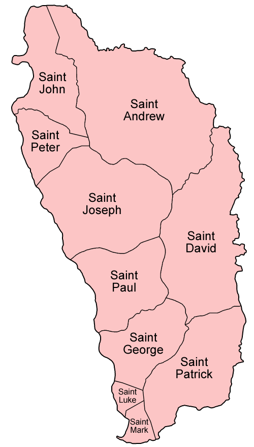 Map of the parishes of Dominica in English (native language). Made by User:Golbez.